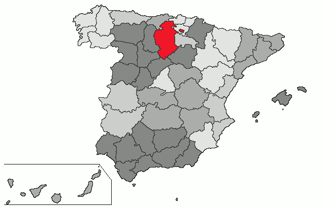 Province of Burgos Based in Image:ProvPont.jpg Source: Designed by Leoplus. Original picture, designed by Sobreira.